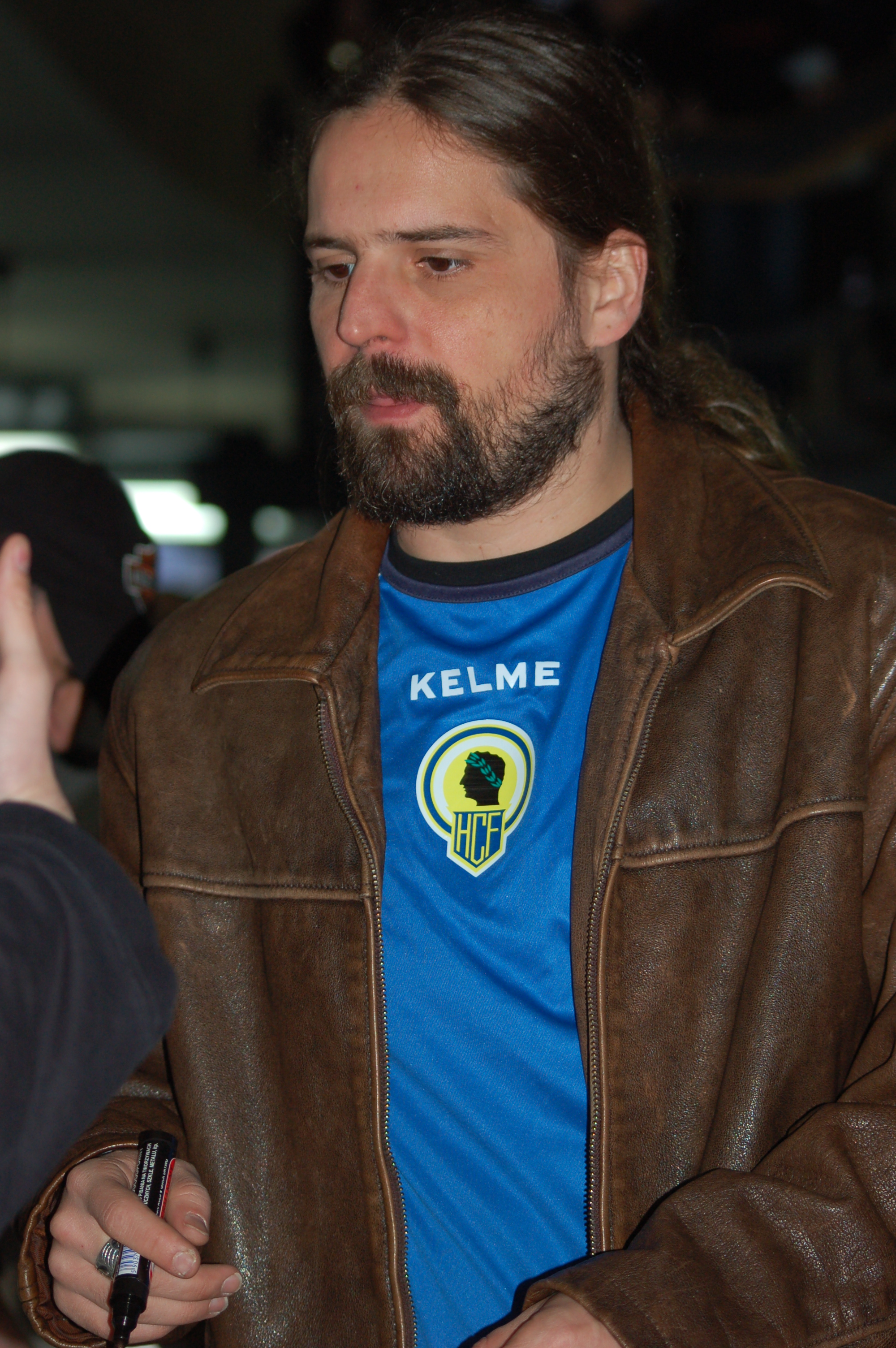 Andreas Kisser from Sepultura during Metalmania 2007 festival